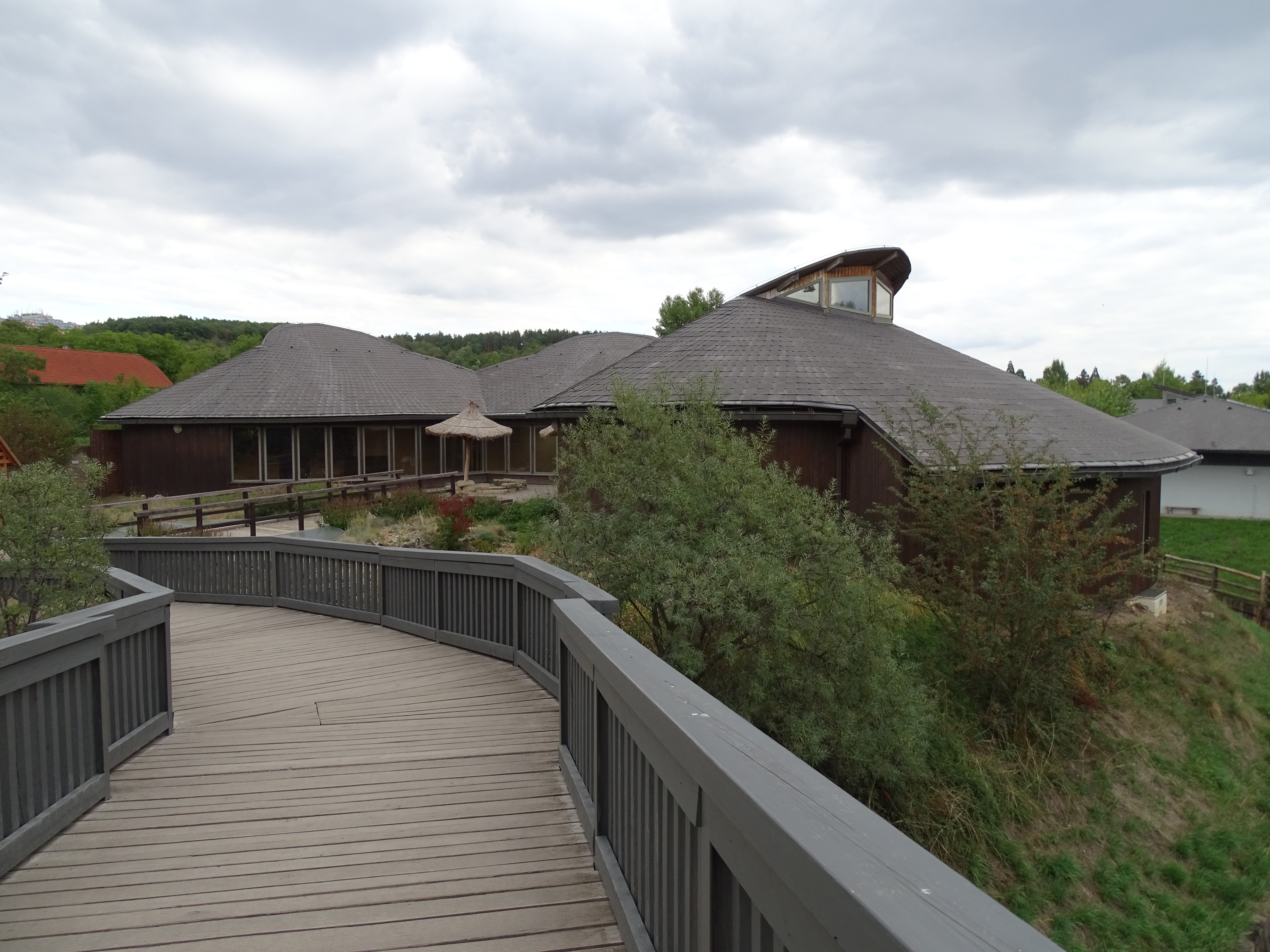 Prague-Troja, Czech Republic. Prague Zoo. Footbridge over Pod Hrachovkou street and Africa House.